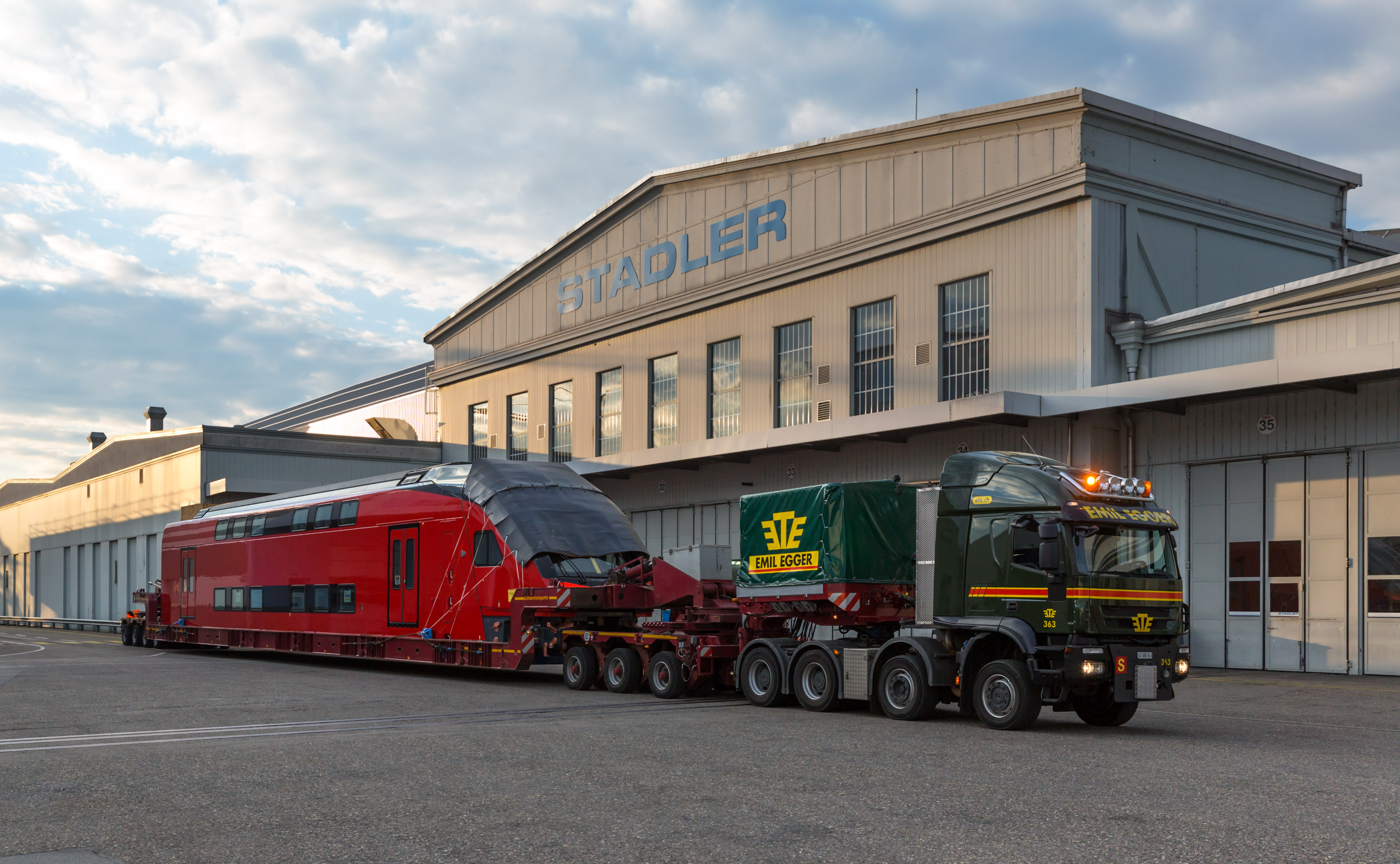 Aeroexpress KISS ready to be transported to Basel at the Stadler works in Altenrhein, Switzerland.